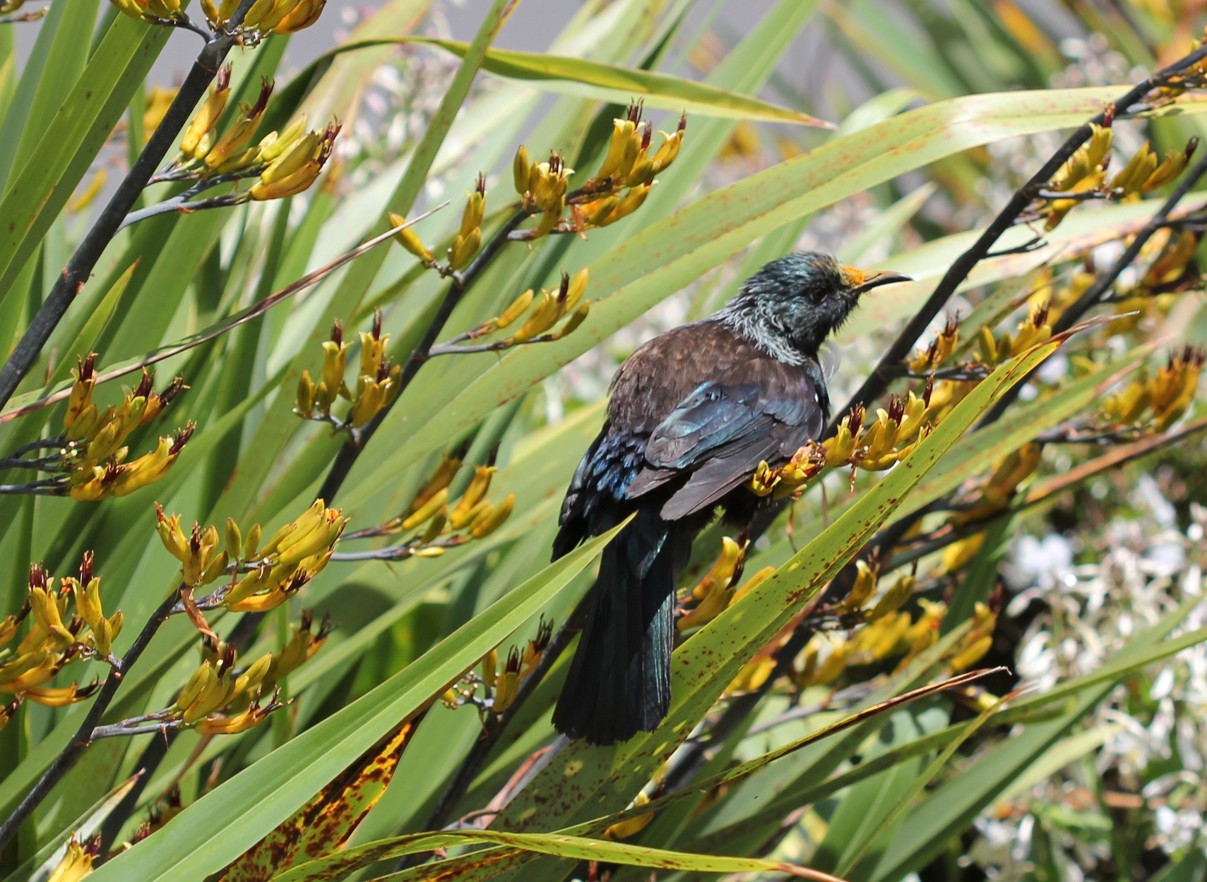 Tui (Prosthemadera novaeseelandiae) on mountain flax (Phormium cookianum) flowers. Yellow pollen is visible above the bird's beak. Photo taken in Auckland, New Zealand.